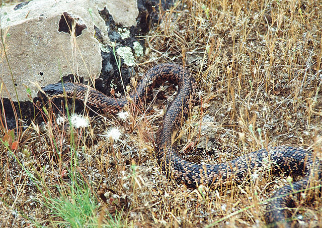 From south-central Chile. In context at